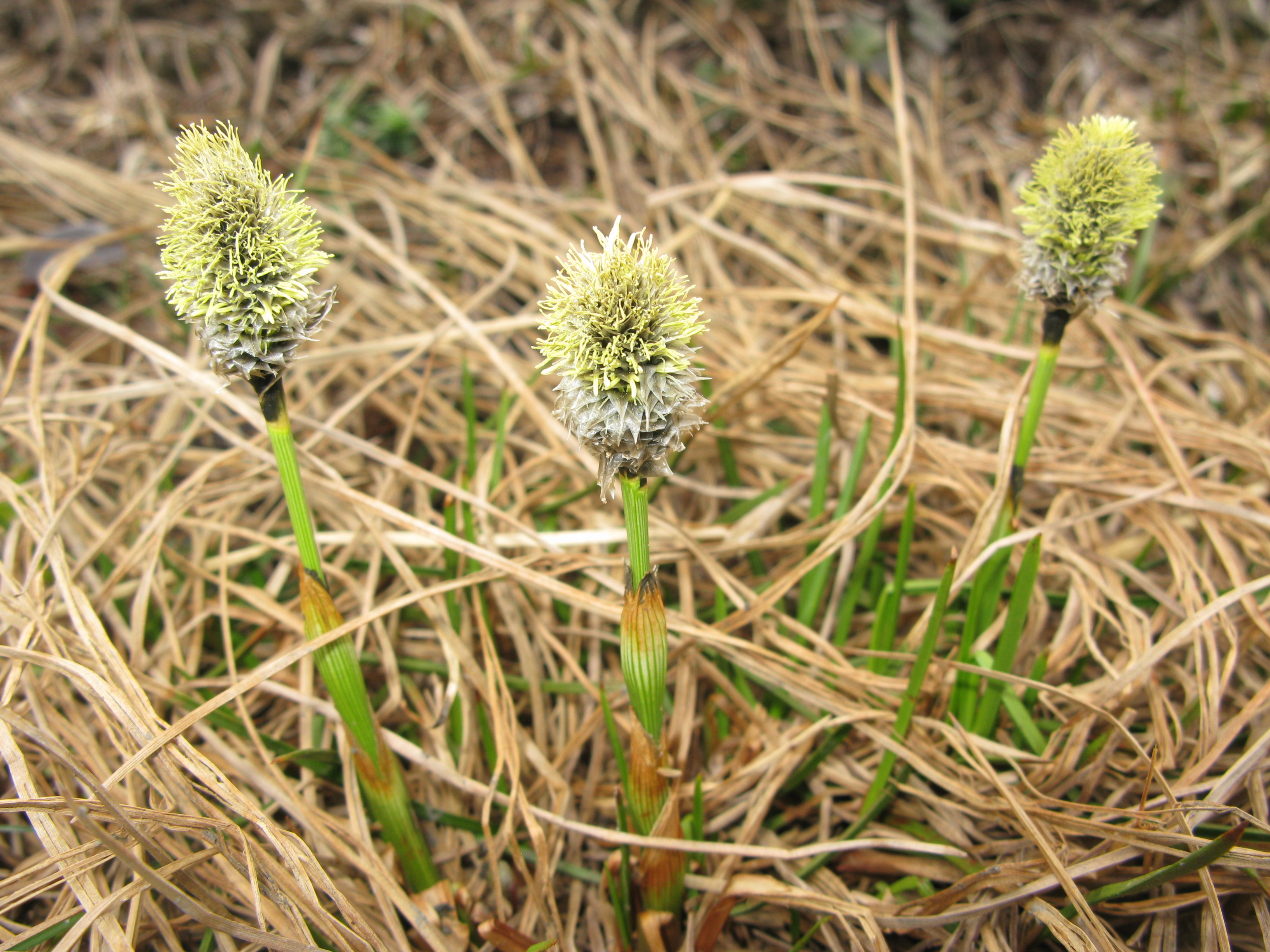 Eriophorum vaginatum, Mt. Nishiazuma, Fukushima pref., Japan